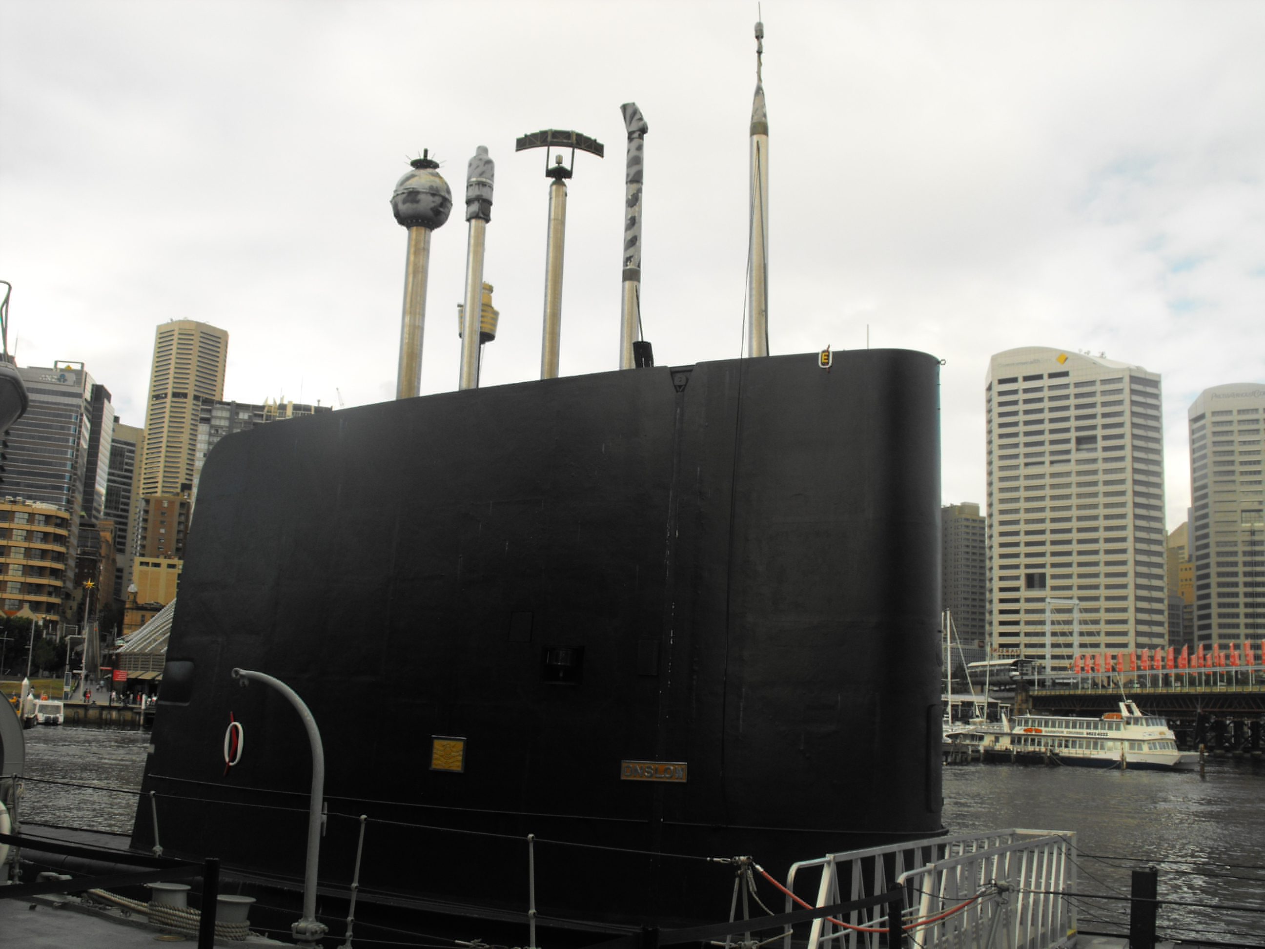 The fin and equipment masts of the Oberon class submarine HMAS Onslow From right to left, the masts are: attack periscope, search periscope, radar mast, electronic support measures (electronic warfare) mast, and the snort induction (diesel generator air intake) mast. Not seen are the wireless telegraphy mast, and the snort exhaust (diesel generator exhaust) mast.[1]